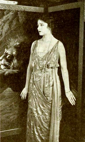 Still from the American film The Lion and the Mouse (1919) with Alice Joyce, on page 660 of the February 1, 1919 Moving Picture World.